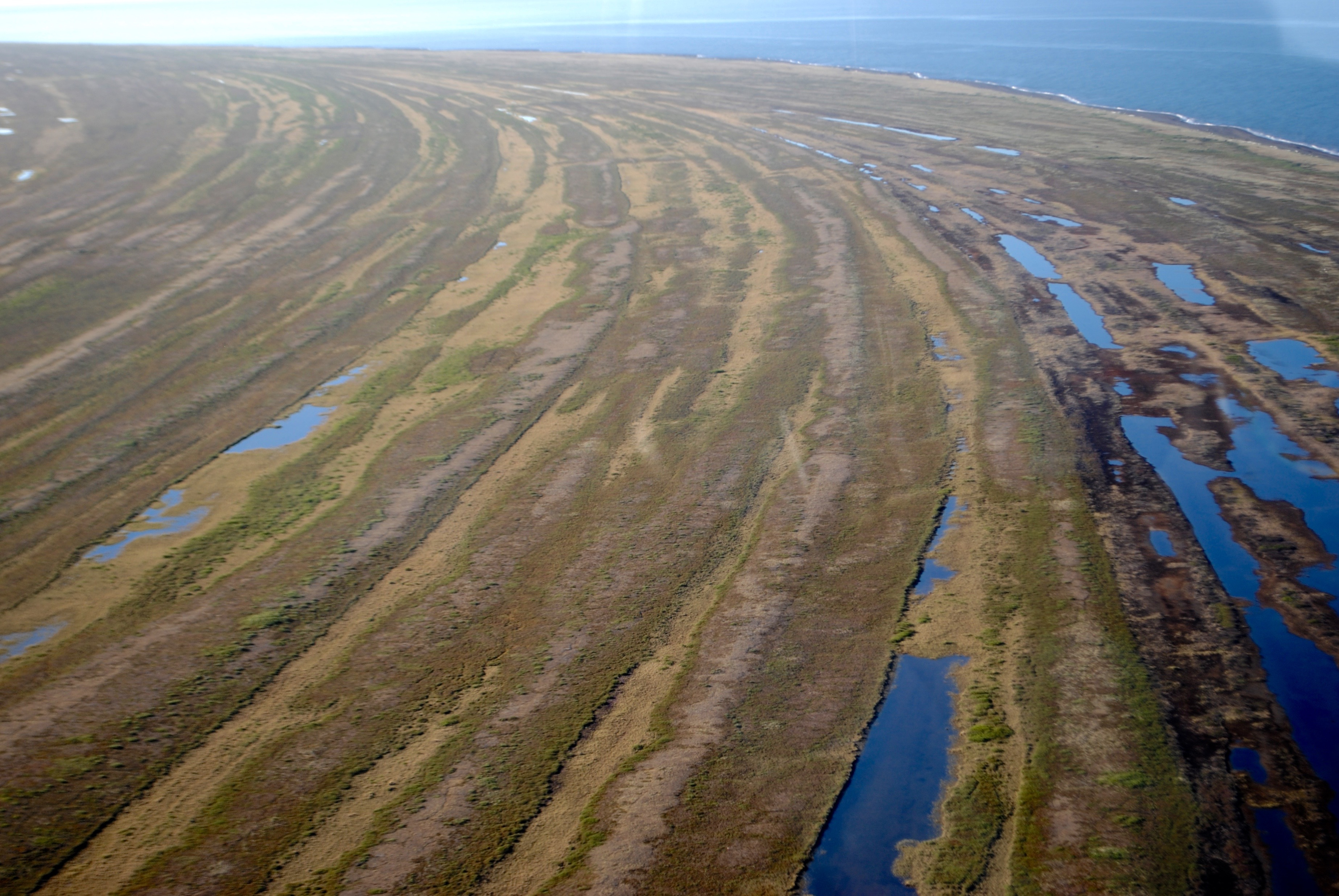 The beach ridges at Cape Krusenstern National Monument provide sequential documentation of 5,000 years of Arctic history and continuous habitation.